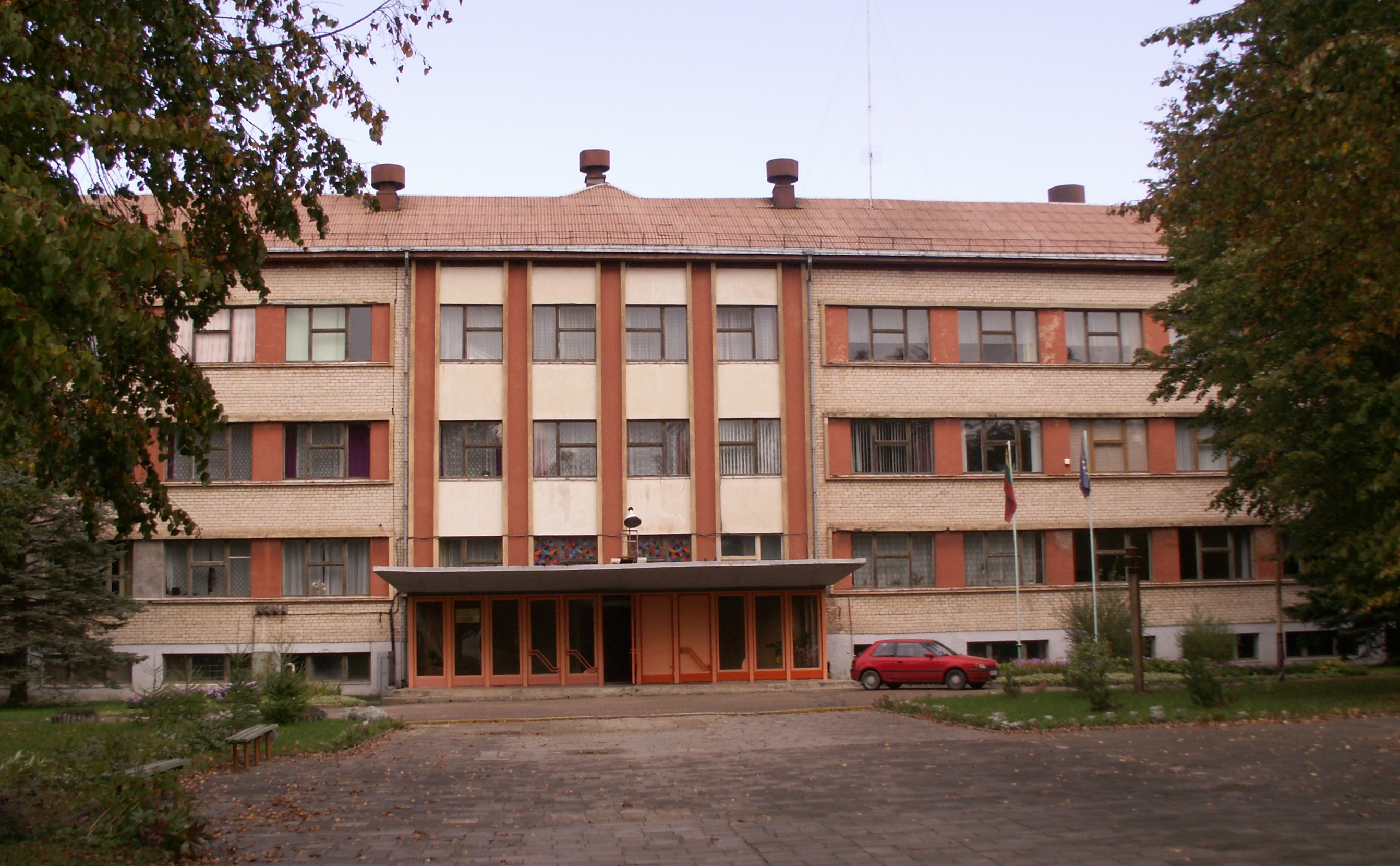 City school of Gruzdziai